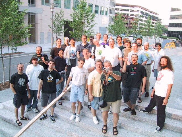 OpenBSD hackers at c2k++ at MIT. Photo by Dug Song.